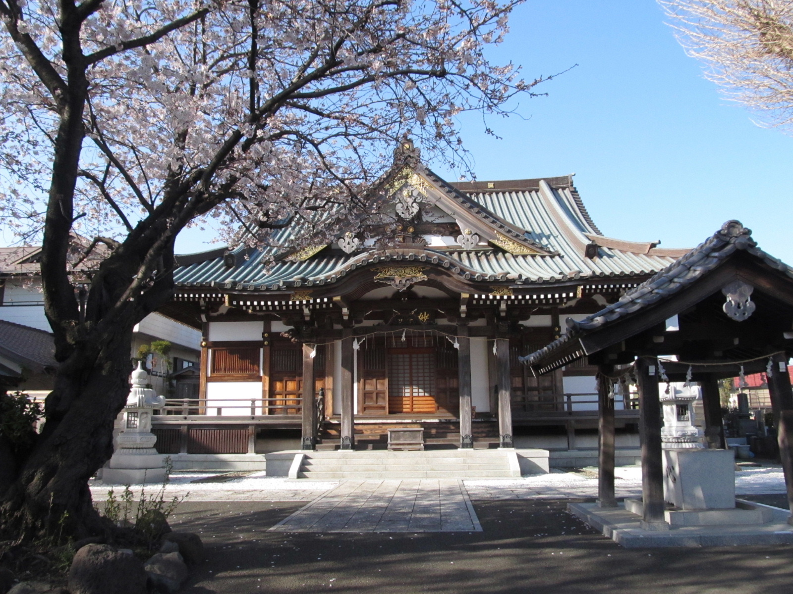 Myōzen-ji in Fujisawa City, Kanagawa Prefecture, Japan